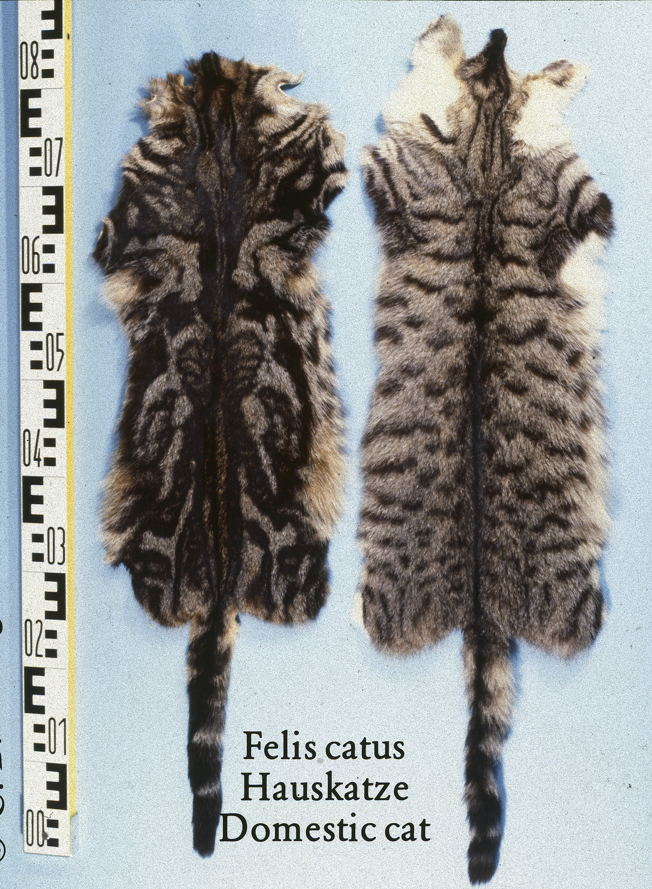 Domestic cat fur skins (Felis catus). Fur skin collection, Bundes-Pelzfachschule, Frankfurt/Main, Germany